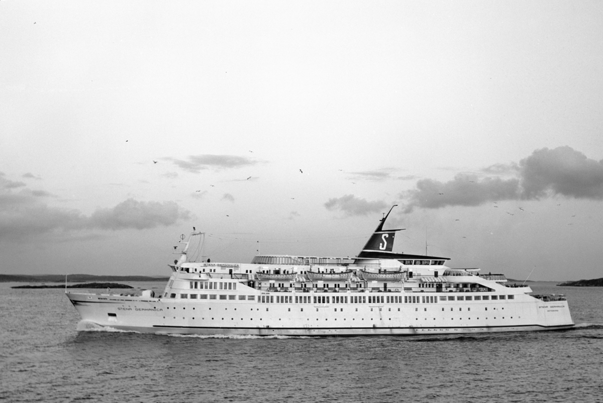 The former MS Sten Germanica, sailed in Stena Line colours from 1967 to 1979. Broken up by Titan Maritime Industries in 1989, after four years as a wreck at Isla de Mona, Puerto Rico.